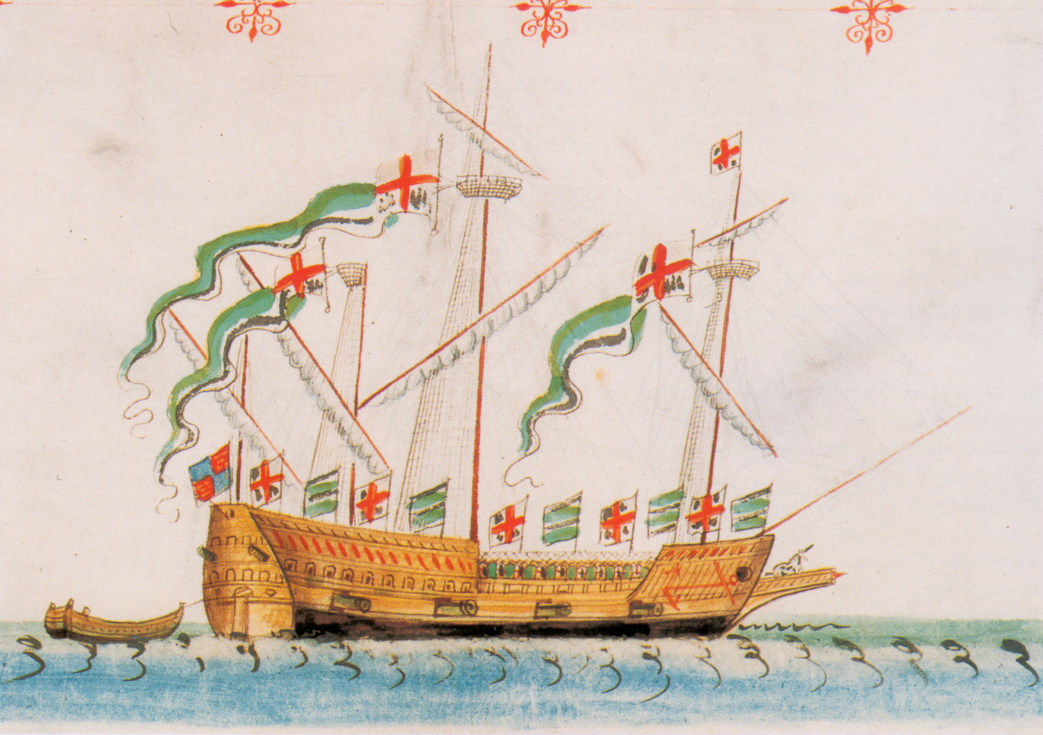 Illustration of the galleass Unicorn. Notification about possible deletion Cathsuth (talk) 16:17, 9 February 2017 (UTC)